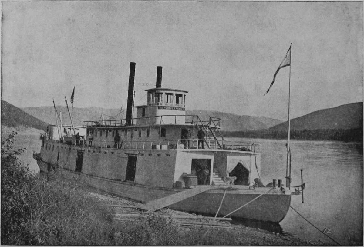 The Portus B. Weare was owned by the North American Transportation and Trading Company. She was used to transport people and goods up and down the Yukon River.